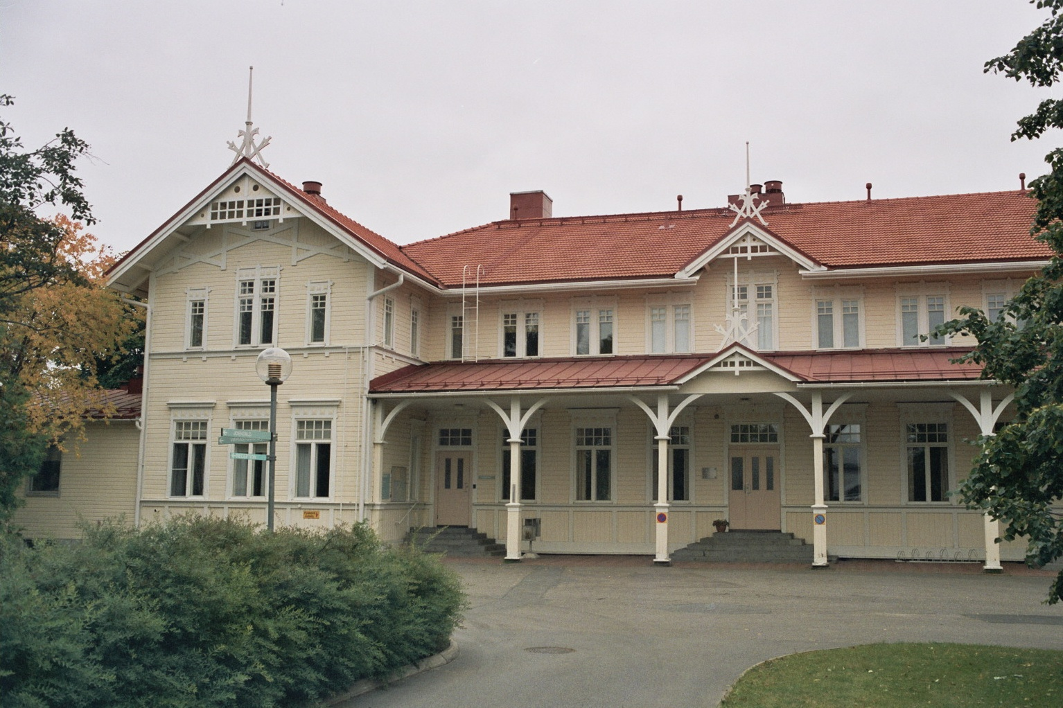 Niilontalo, built in 1904, one of the buildings of the Peräpohjola Institute in the Kiviranta district of Tornio, Finland.